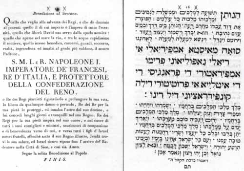 A Jewish prayer written by the Jews of Livorno, Confederation of the Rhine for Napoleon on his 38th birthday, in Hebrew and Italian. Published in the Hod Malchut (Glory of Sovereignty) Siddur, 1808.